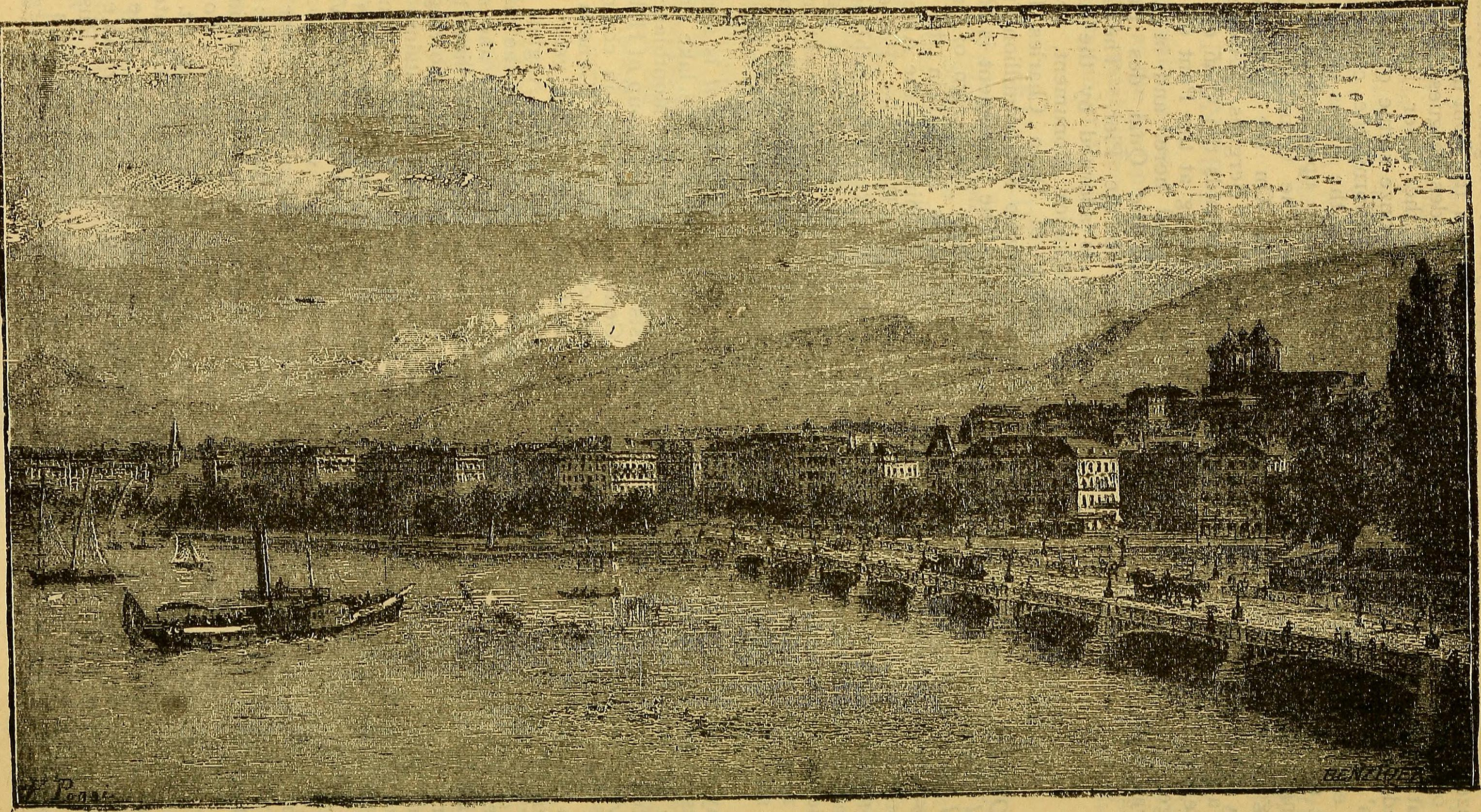 Title: Guide through Germany, Austria-Hungary, Italy, Switzerland, France, Belgium, Holland and England : souvenir of the North German Lloyd, Bremen Year: 1896 (1890s) Authors: Norddeutscher Lloyd Subjects: Publisher: Berlin : J. Reichmann & Cantor Text Appearing Before Image: by Monod in 1853. The National Monument is situated on the south bank of the lake on the left of the Pont du Montblanc. It consists of a bronze group of Helvetia and Geneva, by Dorer, in commemoration of the union of Geneva with the Confederation, in the year 1814. Near here is the Jardin Anglais with restaurant. The centre of the garden is adorned by a fountain and some bronze busts. In the pavilion there is a Relief of Montblanc, showing the relative heights of the mountains. The fee for admission is 50 c. On the north of the Jardin Anglais, on the lake, is the Quai des Eaux-Vives, which is planted with trees. The Salle de la Reformation, near the Quai, contains a concert room; the Calvinium with memorials of Calvin, & c. and a model of Jerusalem. To the right, in the Promenade de St. Antoine, is the College de St. Antoine, established by Calvin, 1559. The Observatory is on the left. On an eminence, farther on, is the Russian Church. Near here is Topffers bust in bronze. In the Place du Bourg-de-Four